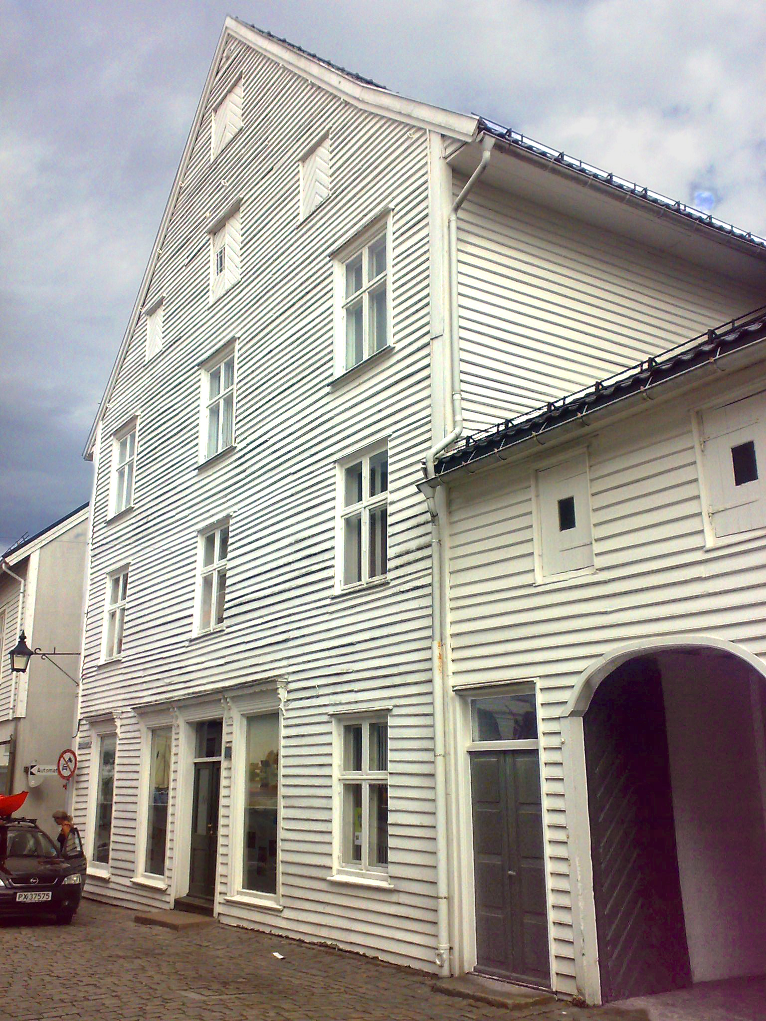 Andorsengaarden, a manor and museum in Mandal (Norway)